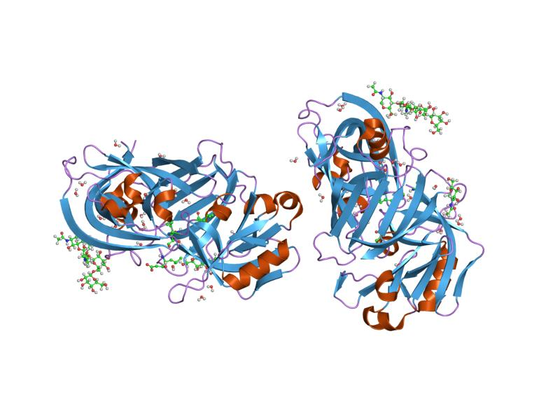 Cartoon representation of the molecular structure of protein registered with 1lyb code.